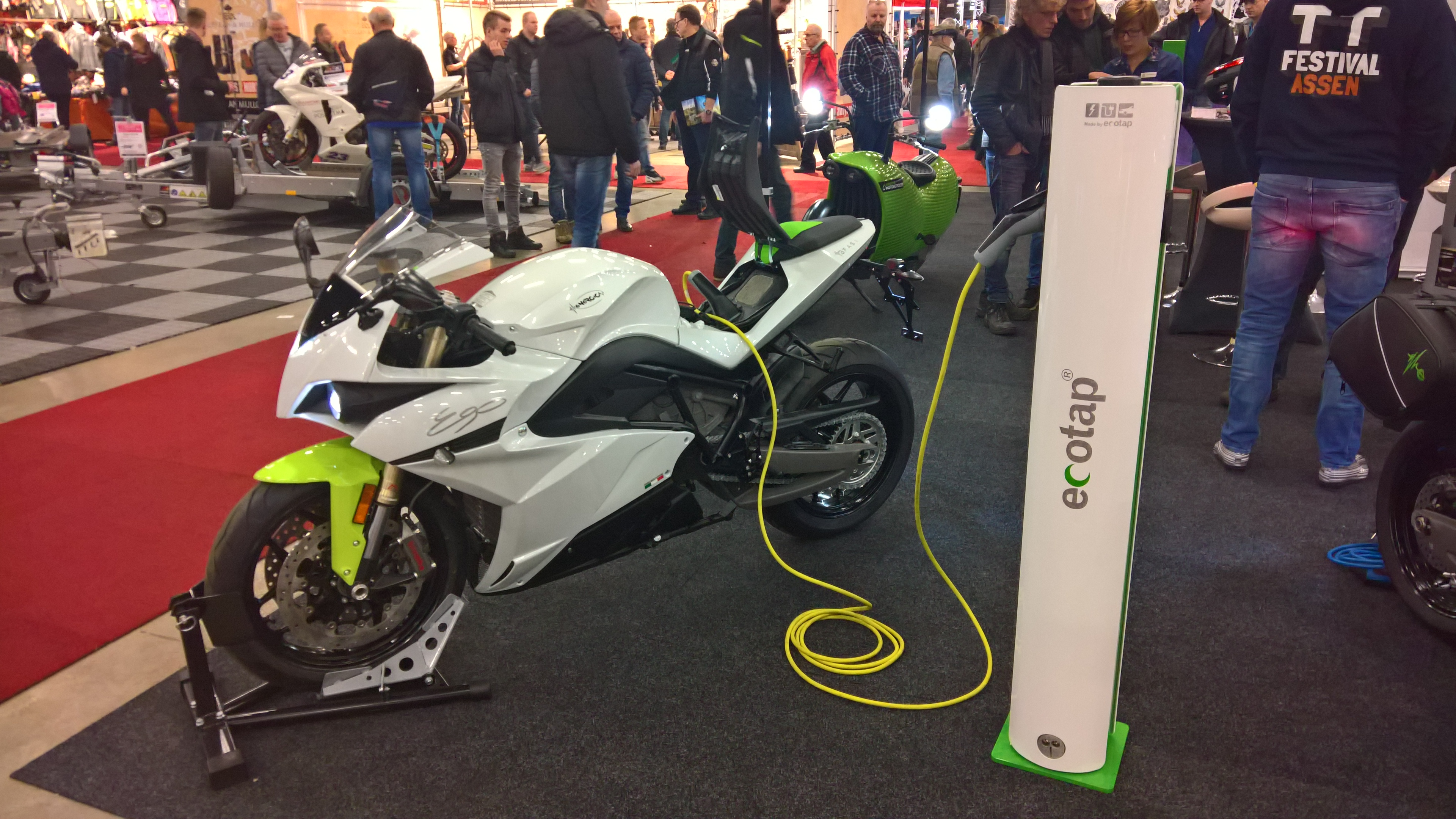 A stand presenting the latest electric motorcycles of 2018 at the motor show in the TT-Hall of Assen. The motorcycle shown is Energica Ego